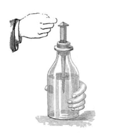 Drawing of an early form of Leyden jar, from an 1898 textbook on physics. Unlike the later type of Leyden jar which had coatings of metal foil on the inside and outside, this first form of Leyden jar was filled with water; the water formed the inner plate of the capacitor. A metal nail driven through the cork stopper made contact with the water, allowing the water to be charged with electricity and discharged. The jar was held in the hand, and the (grounded) hand on the outside of the jar formed the other plate of the capacitor. Once charged, the jar could be discharged by approaching the nail with a finger as shown. The charge from the water would jump via a spark to the hand, and flow through the body to the other hand holding the jar, neutralizing the opposite charge there. This often resulted in a nasty shock. Alteration to image: cropped out two other jars in original image to show just the early jar, removed label.